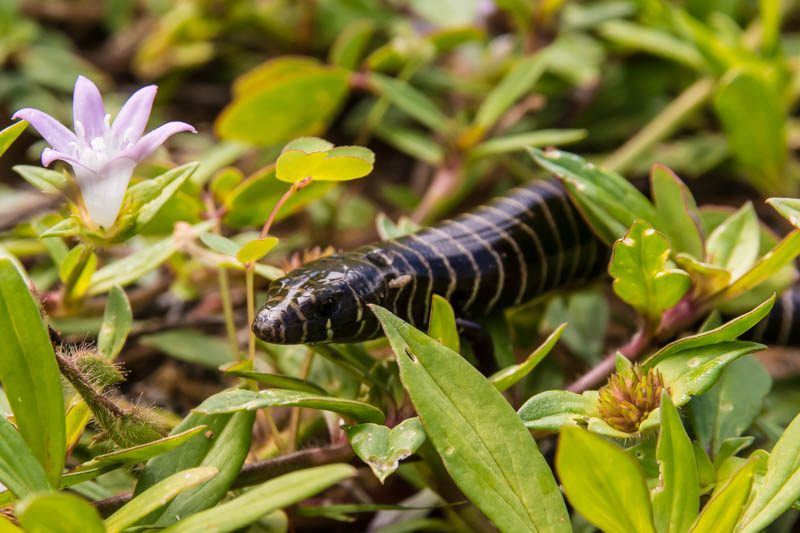 Diploglossus lessonae lizard. Picture by Paul Ojuara